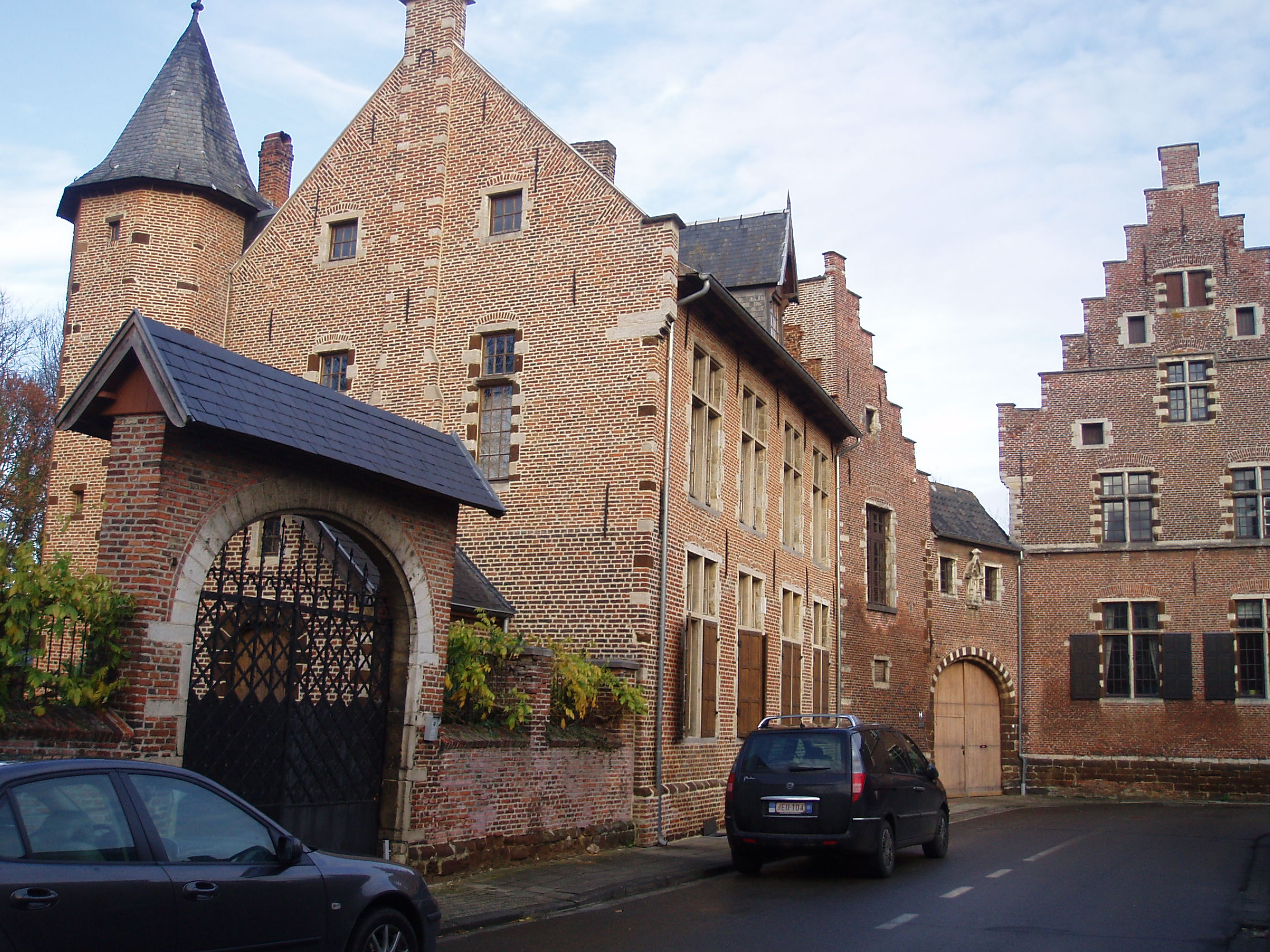 Diest refugium abbey Averbode